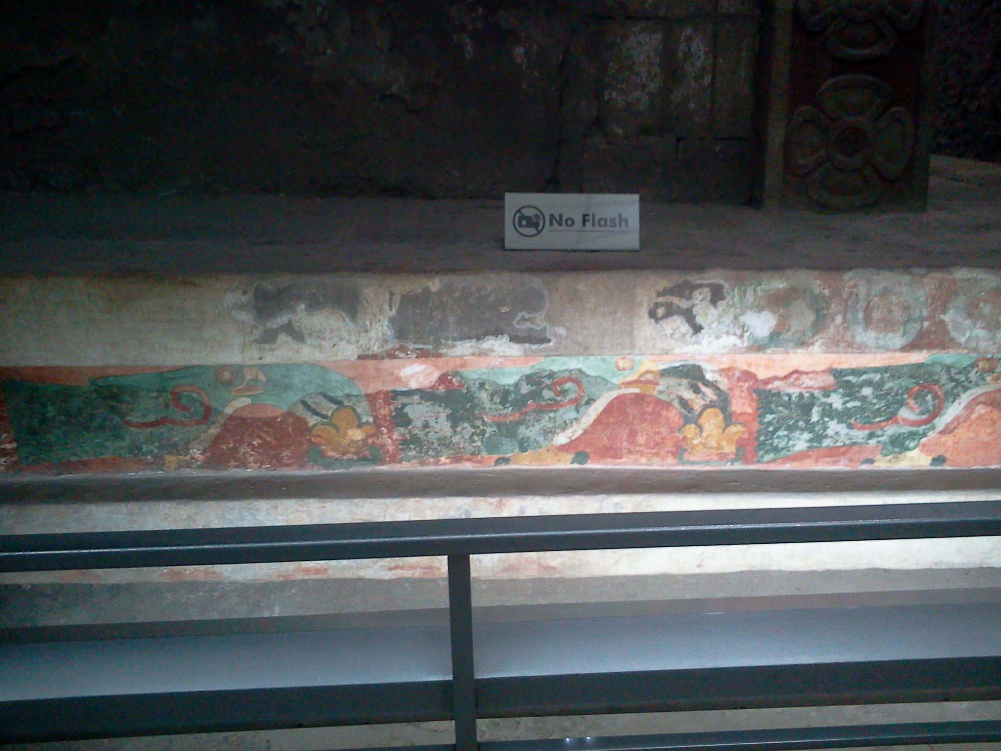 Mural of Teotihuacan